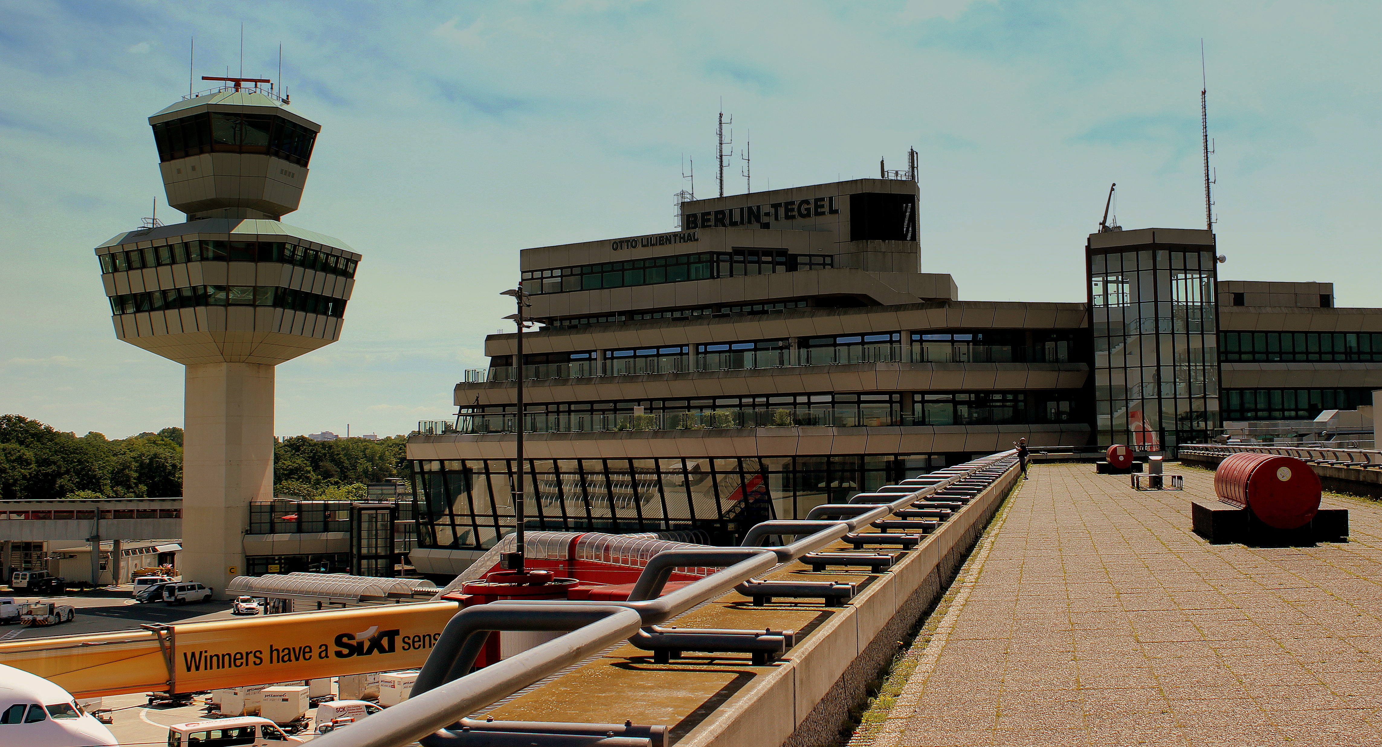 BERLIN TEGEL FLUGHAFEN GERMANY JUNE 2013